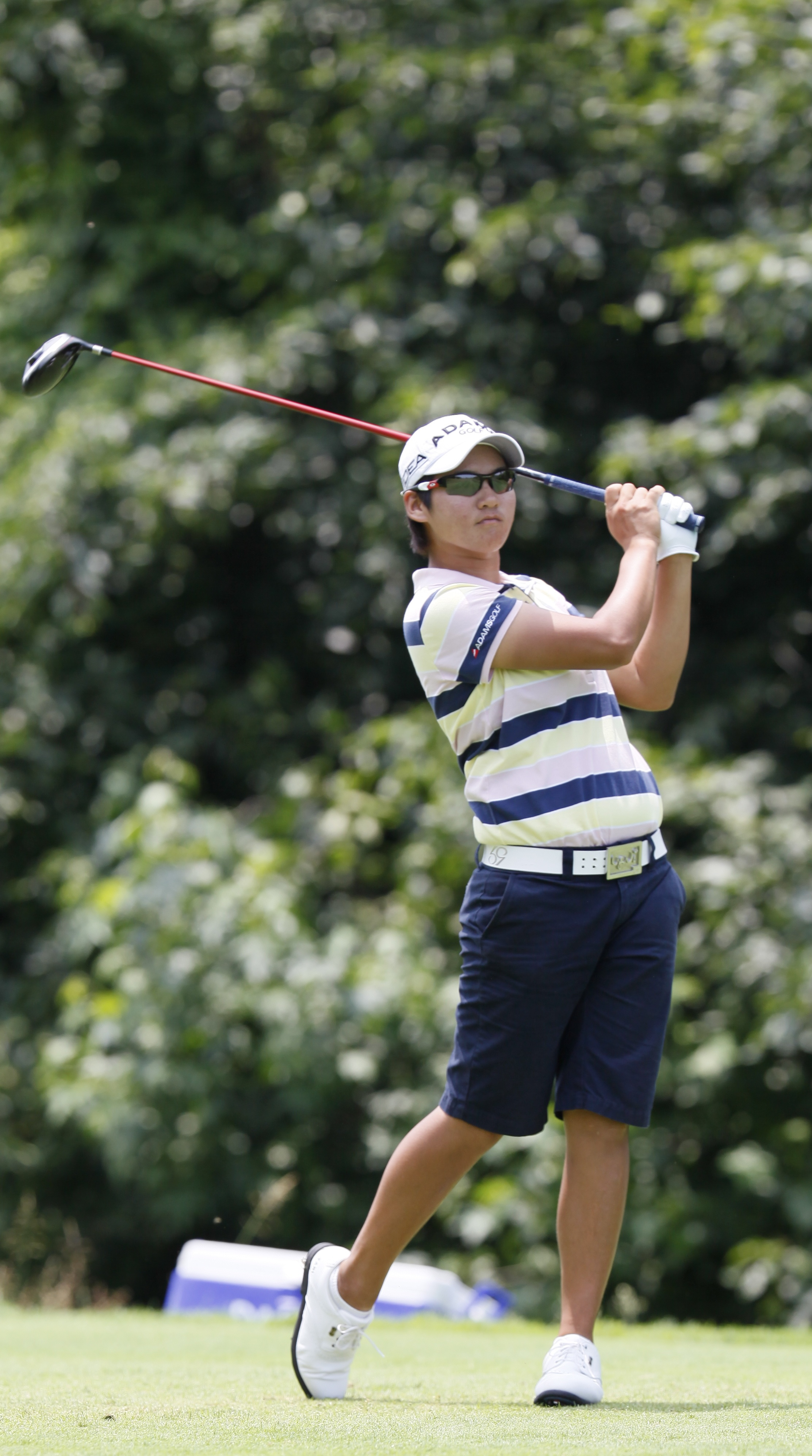 HAVRE DE GRACE, MD - JUNE 09: Yani Tseng (TWN) during Pro-Am before 2009 LPGA Championship held at Bulle Rock Golf Course, on June 9, 2009 in Havre de Grace, Maryland. (Photo by Keith Allison)